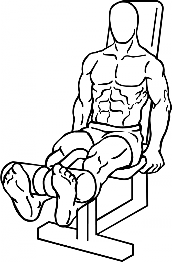 an exercise of thigh